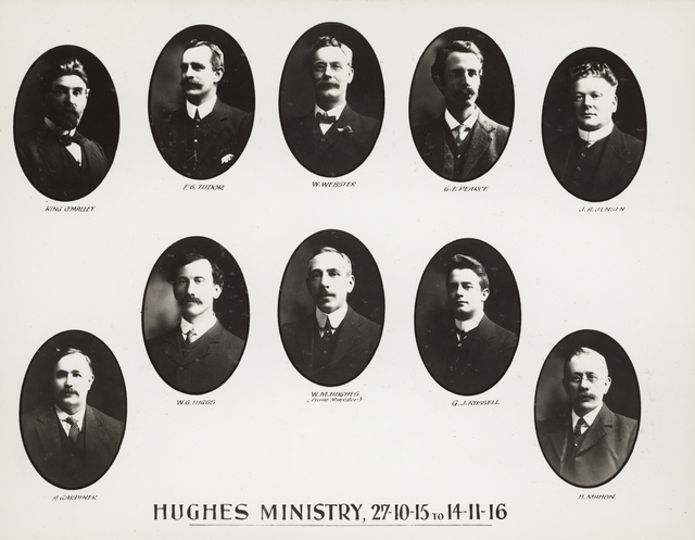 Members of the first Hughes Ministry, which was in office from 27 October 1915 to 14 November 1916. Back row from left to right: King O'Malley, F G Tudor, W Webster, G F Pearce, J A Jensen. Second row from left to right: W G Higgs, W M Hughes, G J Russell. Front row left to right: A Gardiner and H Mahon.